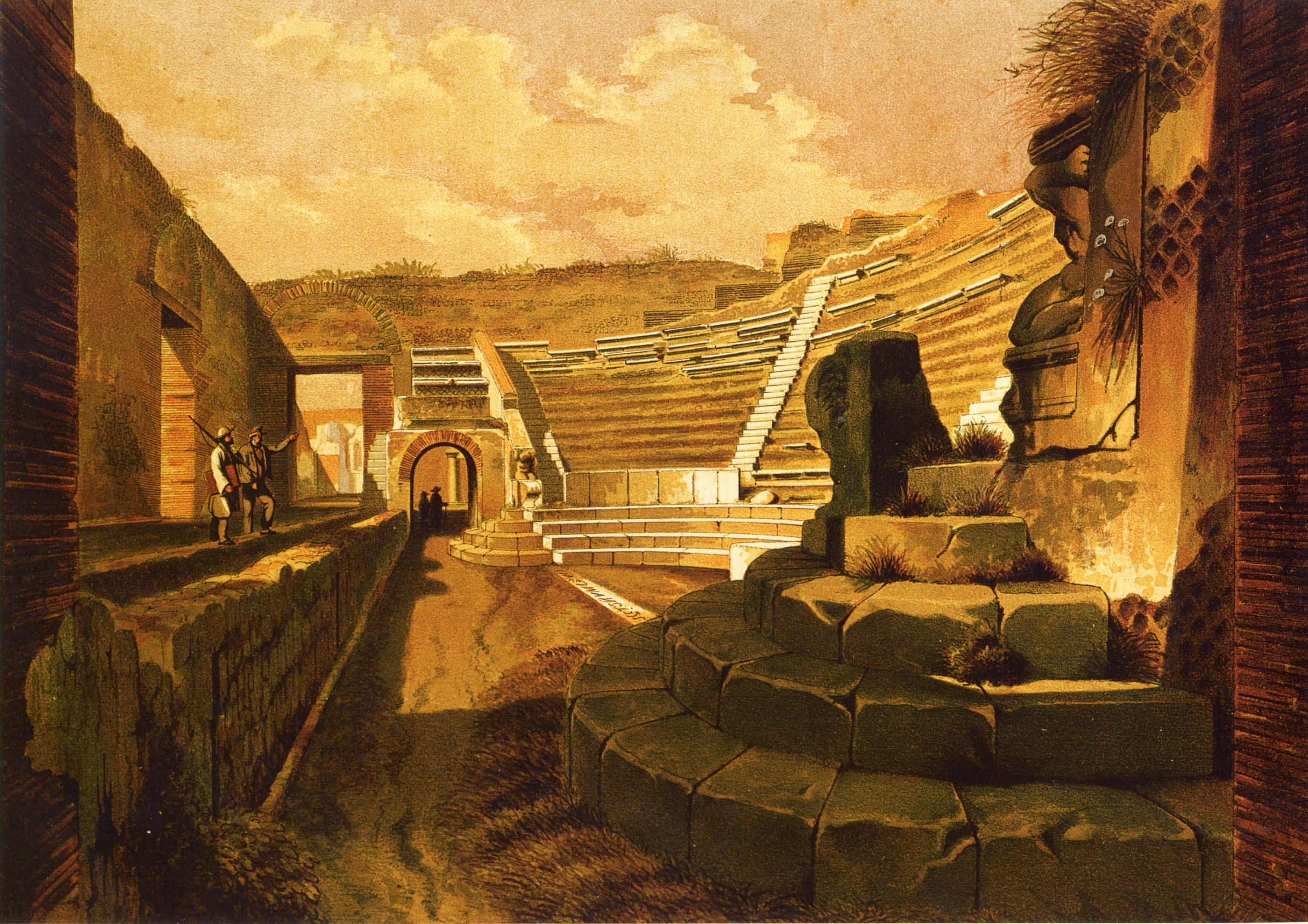 Painting of the orchestra and cavea of the Odeion in Pompeii by Fausto Niccolini († 1886) and Felice Niccolini († 1886). Published in Le case e i monumenti di Pompei (4 vols.; 1854-1896)